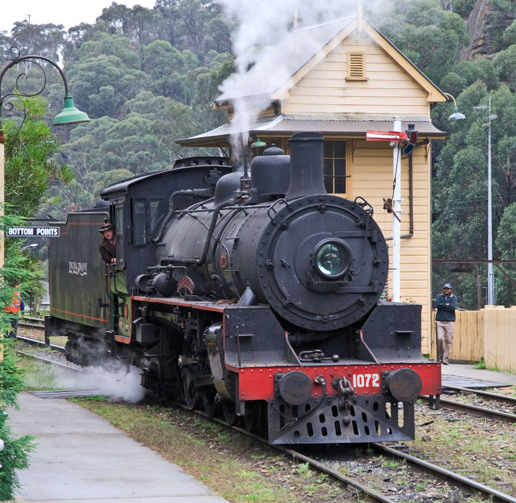 1072 passing Bottom Points Signal Box on the Lithgow Zig Zag railway line.